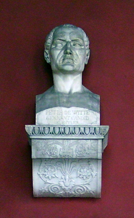 Bust of Peter de Witte, known in Italy as Pietro Candido and in Bavaria as Peter Candid at the Ruhmeshalle (Munich) ("Hall of fame") Germany. Picture taken by myself: Dominik Hundhammer, München, 27 March 2006.